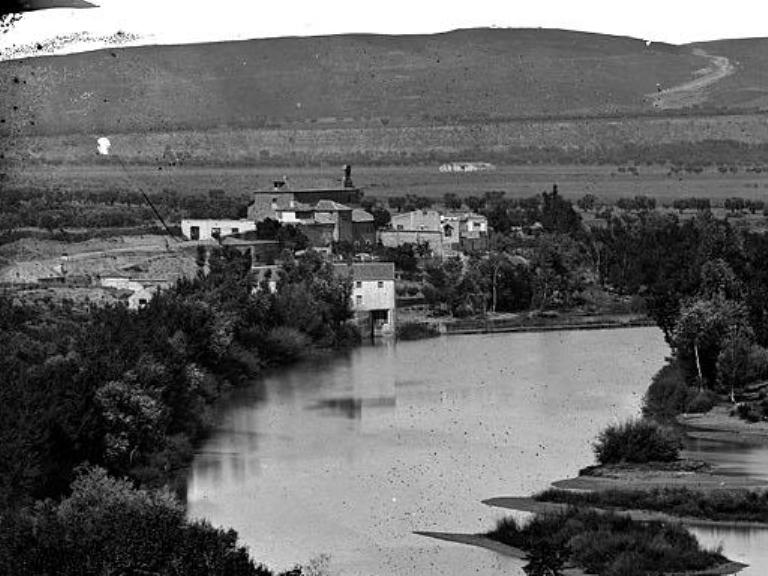 Holy Guardian Hermitage at Toledo ca. 1880 by Jean Laurent